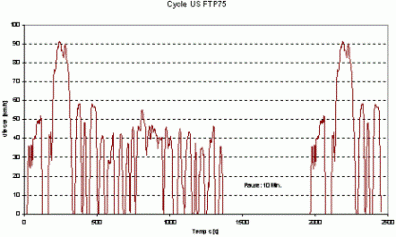 US vehicle certification test cycle FTP-75. Unit : km/h